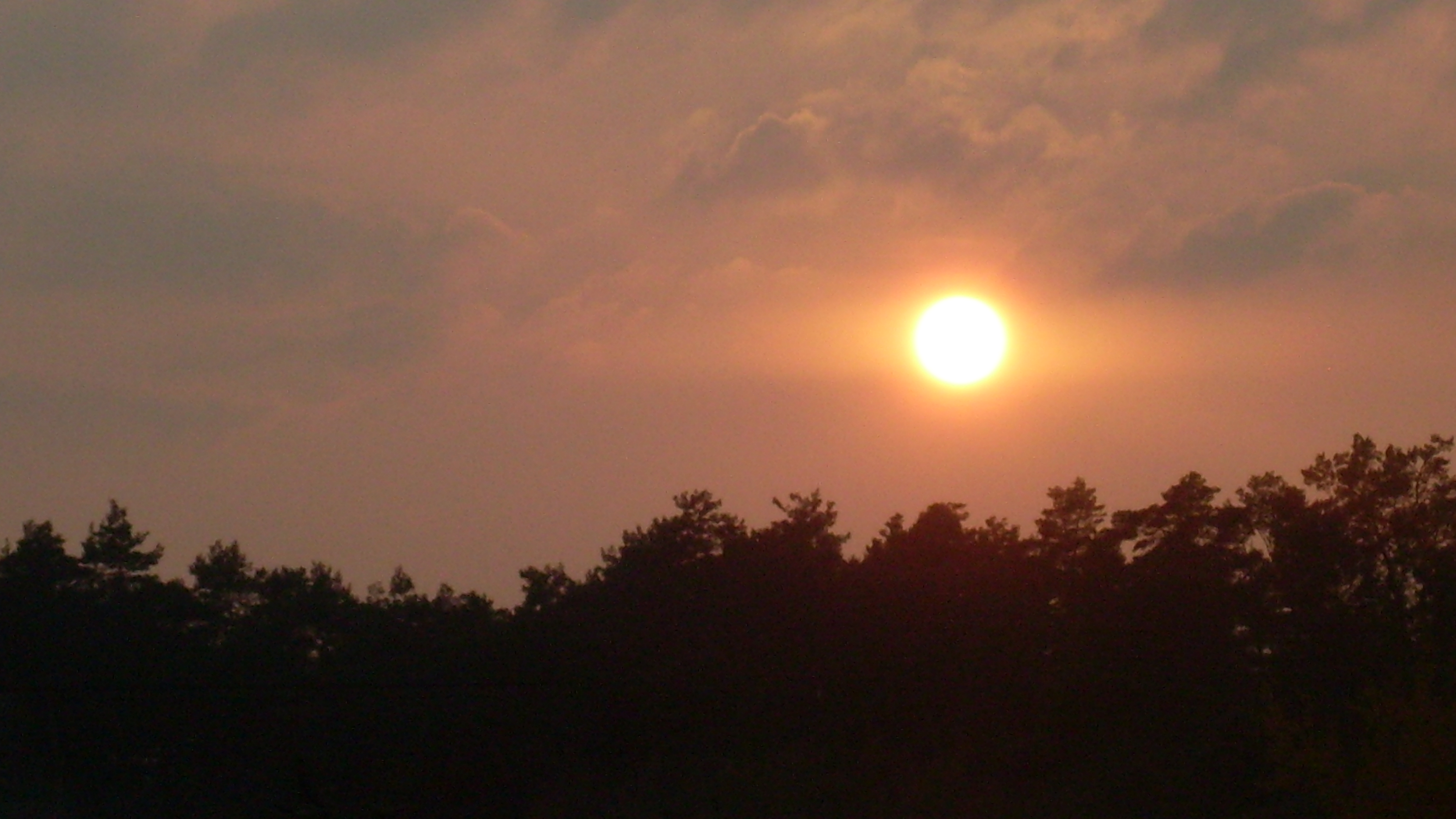 Sunrise.Tenczynek